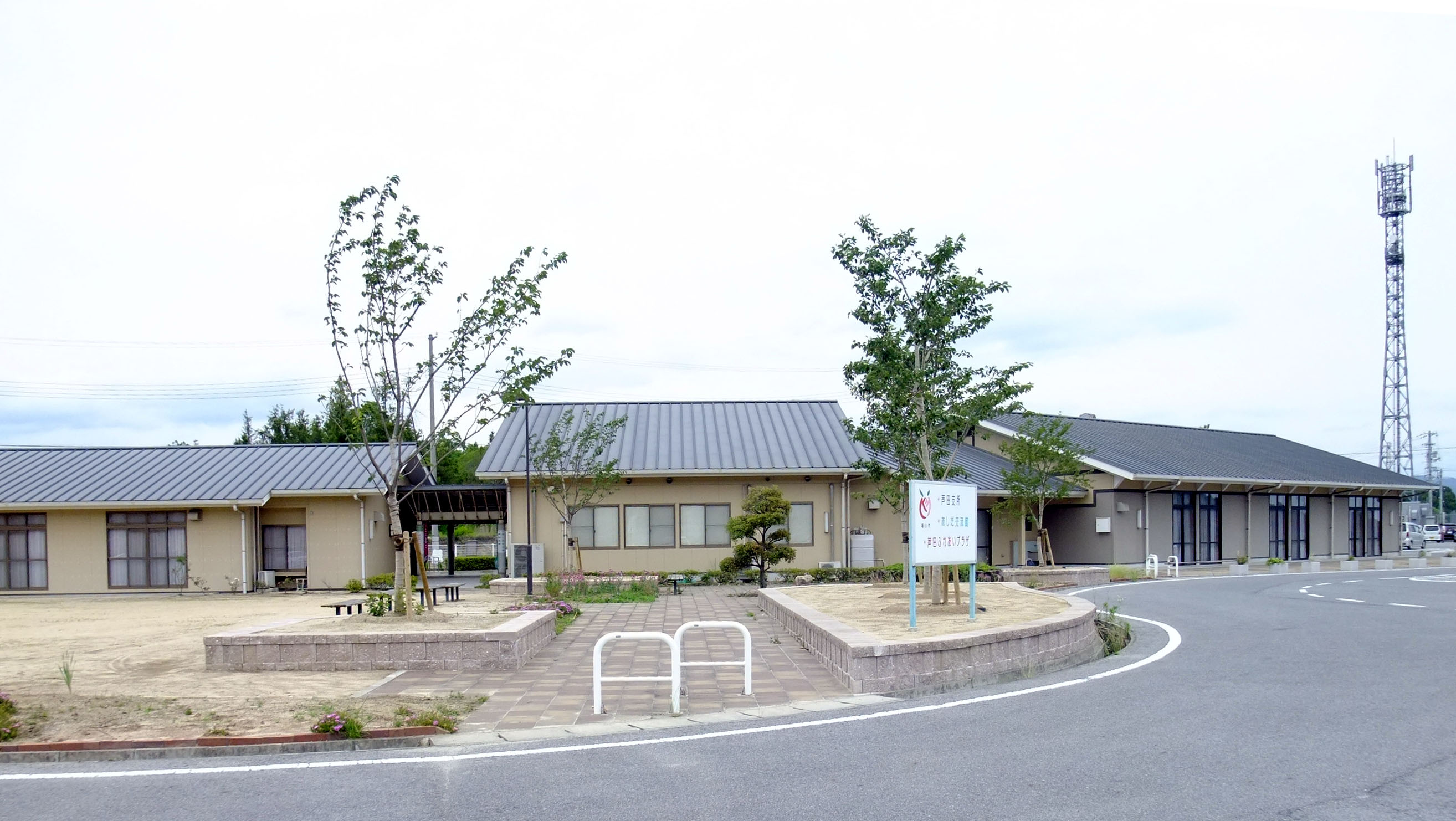 Fukuyama city office Ashida branch